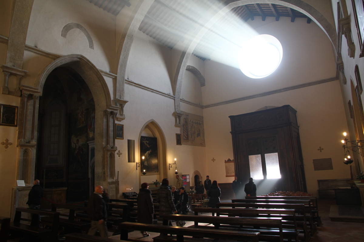 Afternoon sunlight streams through the rose window like a giant flashlight beam in the Church of San Giovanni in Gubbio